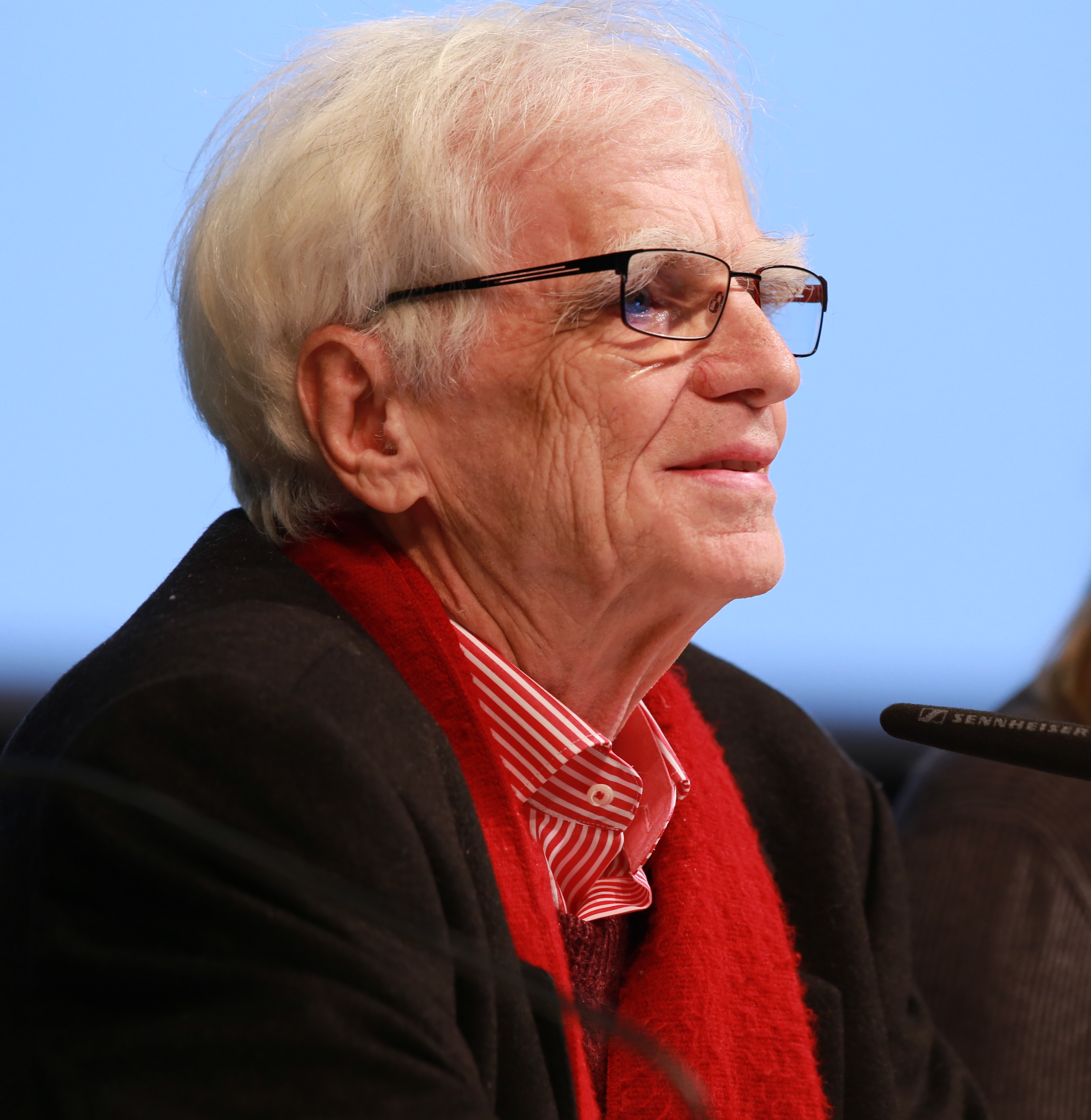 Hans-Christian Ströbele, 34th Chaos Communication Congress, Leipzig.